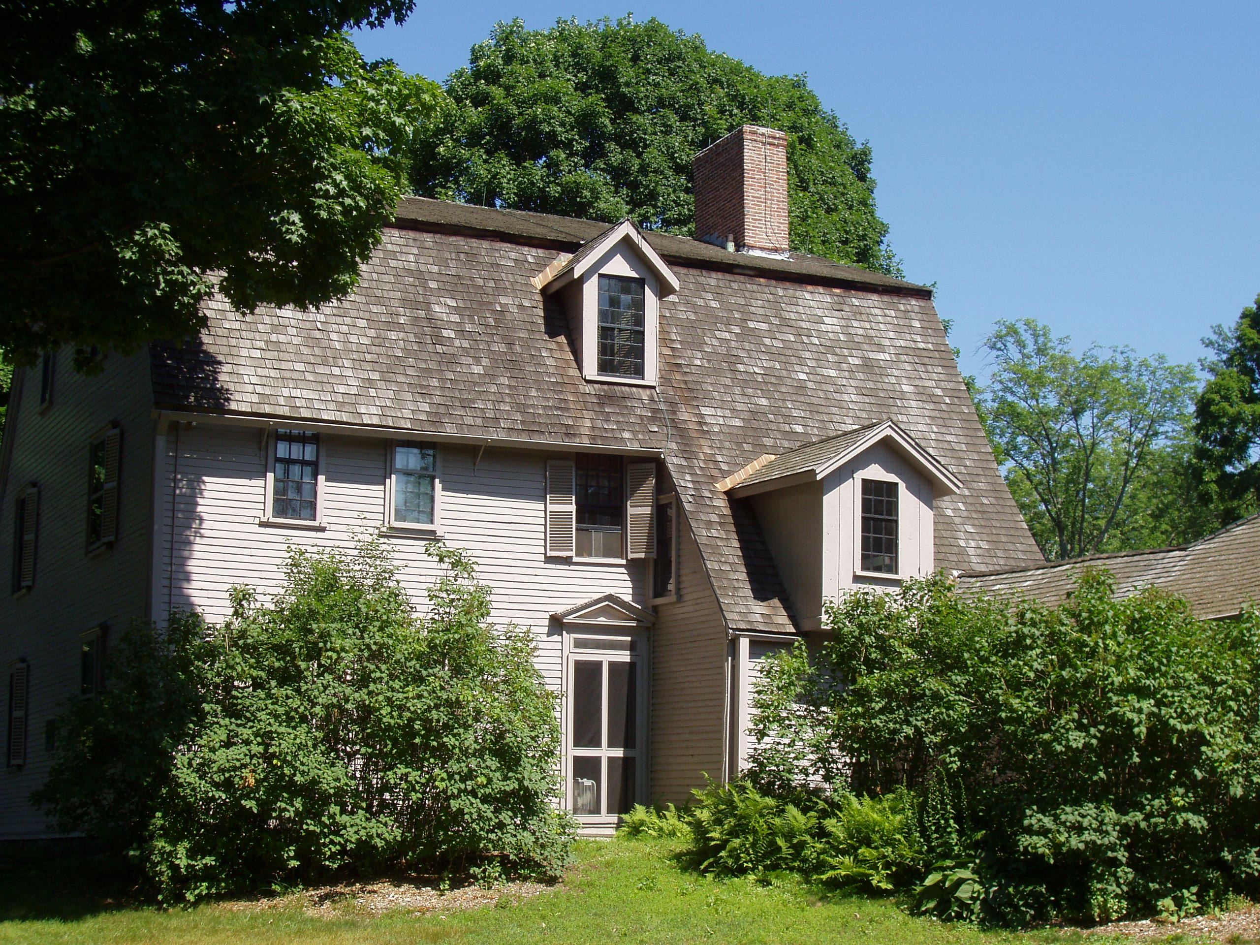 The Old Manse, Concord, Massachusetts. View from the Concord River side of the house. Photograph taken by me, July 4, 2005.